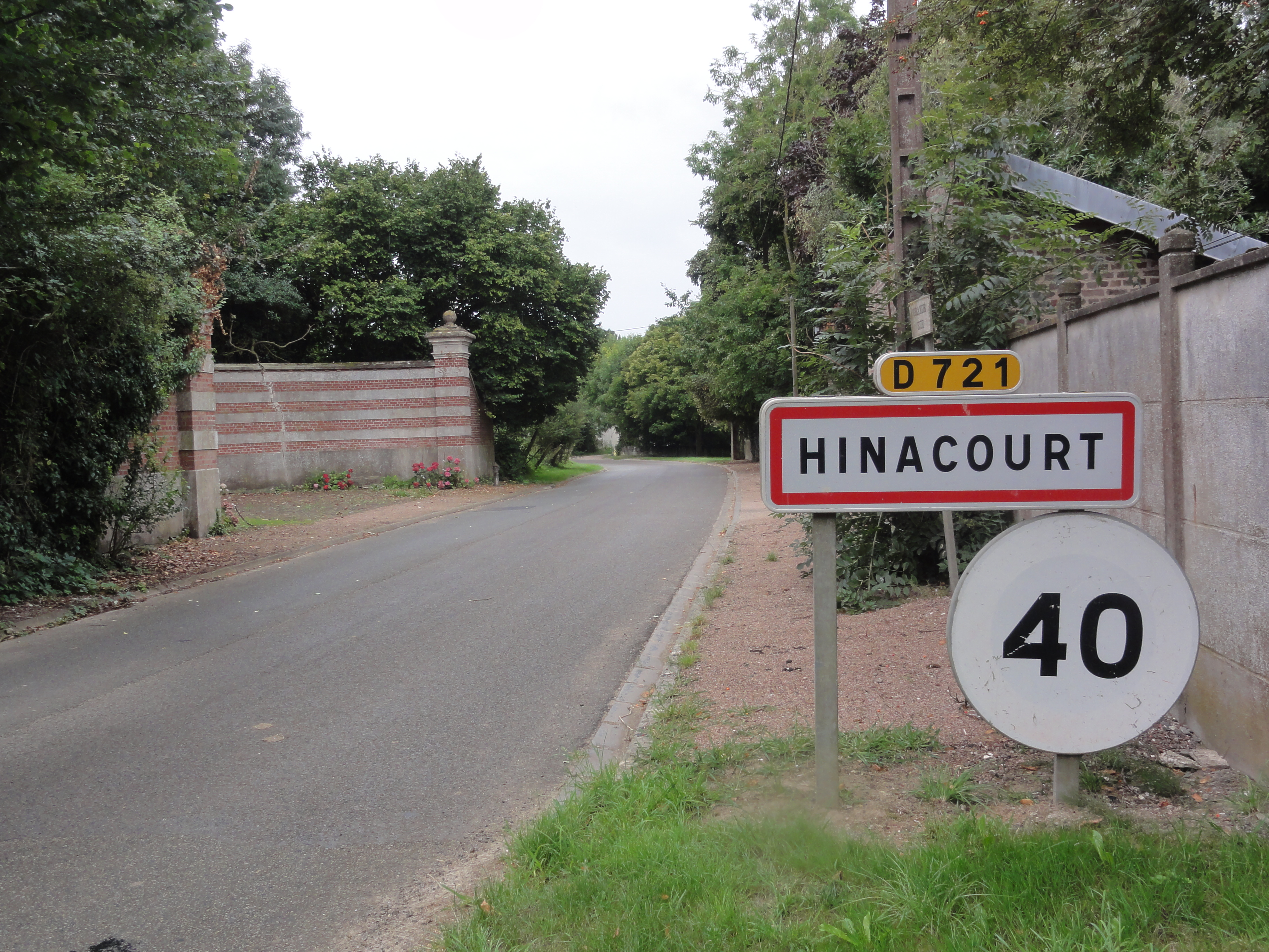 Hinacourt (Aisne) city limit sign